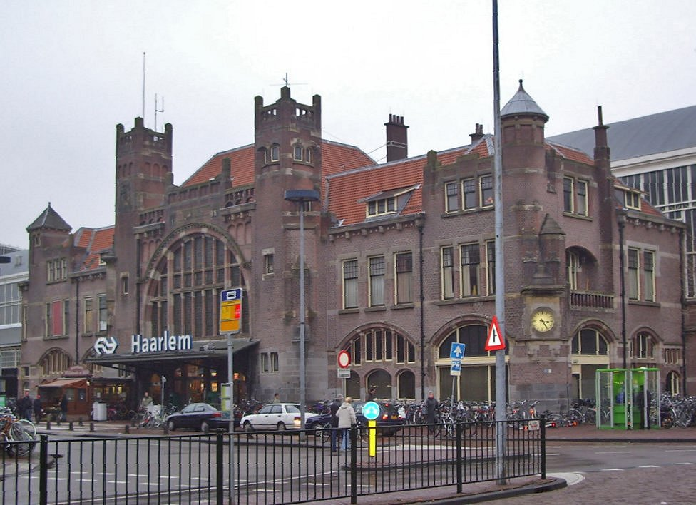 Front side of Haarlem station